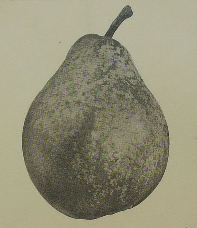 Poire MADAME BALLET - 320